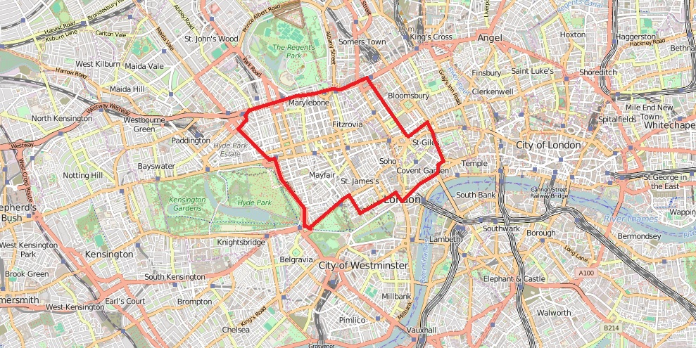 A map showing the rough boundaries of the West End of London, as described in Ed Gilnert's "West End Chronicles".